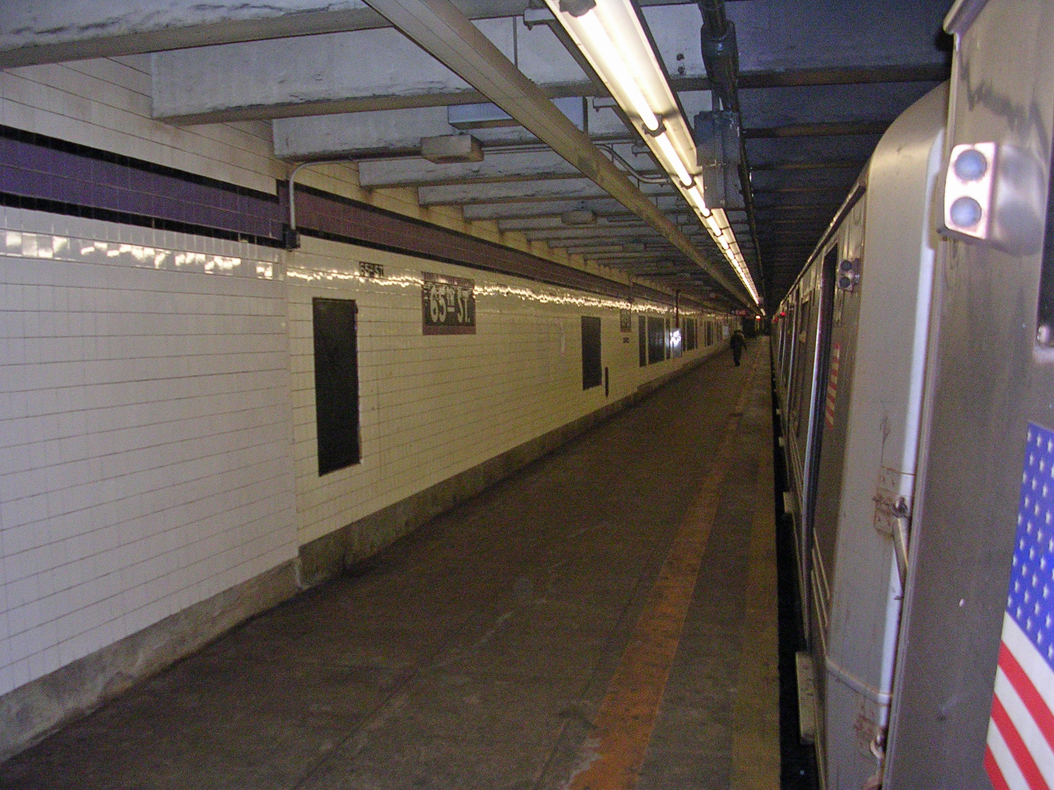 65th Street Subway Station by David Shankbone, January 15, 2007.